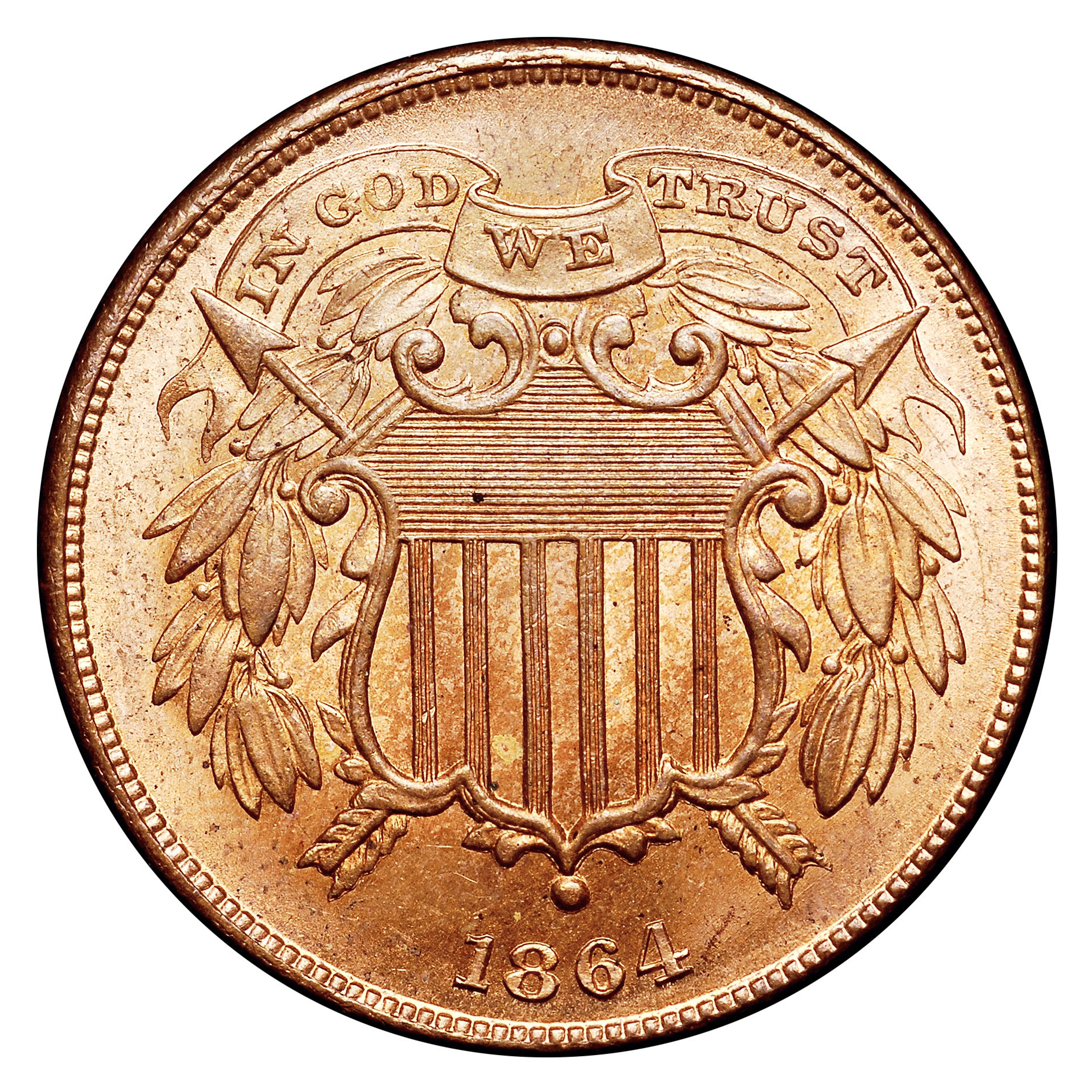 1864 2C Small Motto Red (obv) (1190-33001)